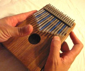 Mark Holdaway, Kalimba Magic